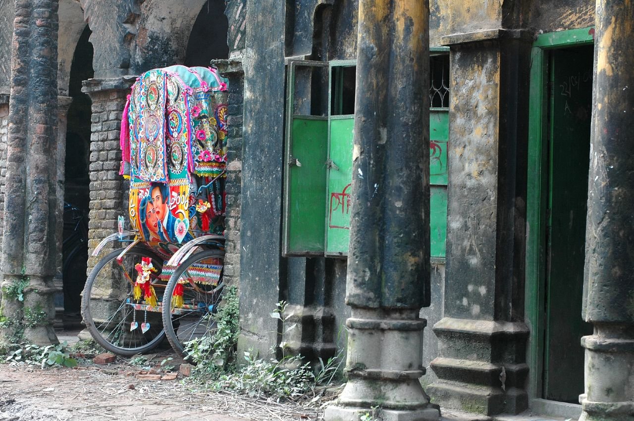 The colourful back of a cycle-rickshaw amongst old, black columns in Sonargaon. "Panam Nagar" the lost city of Shonargaon...an hour drive from DhakaSonargaon Tour_109